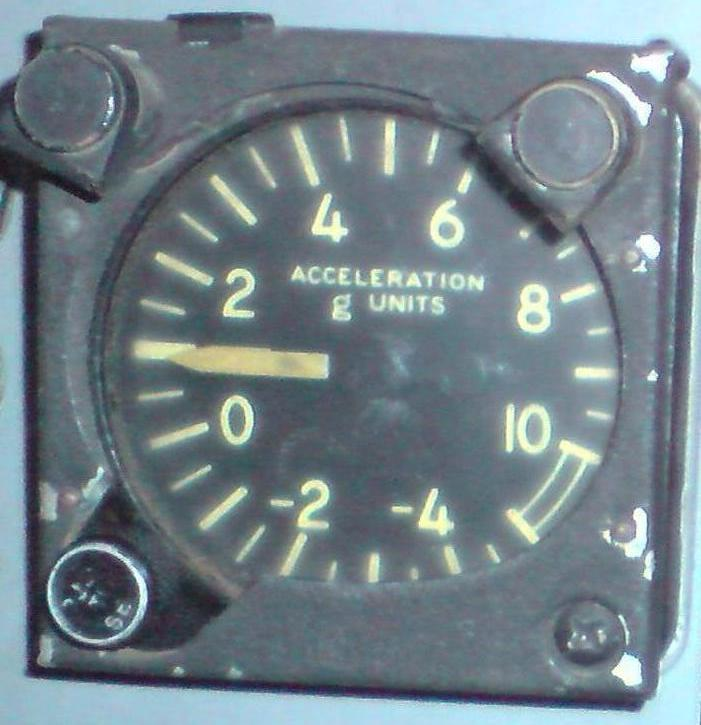 Accelerometer in the cockpit of a Northrop F-5.